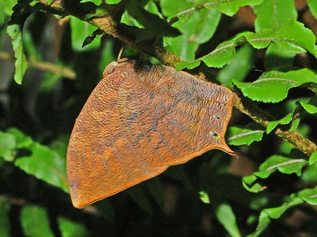 Fountainea nobilis - Niagara Falls Conservatory